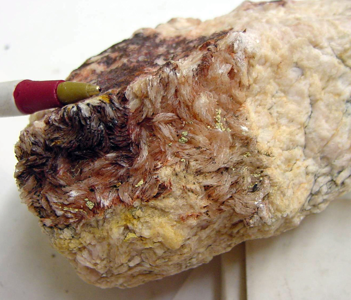 Alunite (Pen for scale) - Mineral collection of Brigham Young University Department of Geology, Provo, Utah - BYU index 10-7043c, KAl3(SO4)2(OH)6